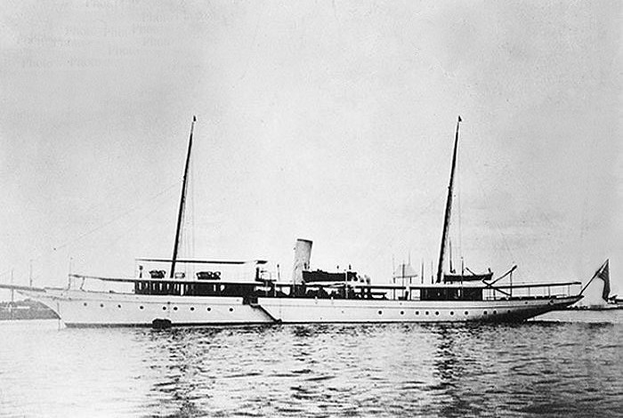 Helenita (U.S. Steam Yacht, 1902). This yacht served as USS Helenita (SP-210) in 1917-19.